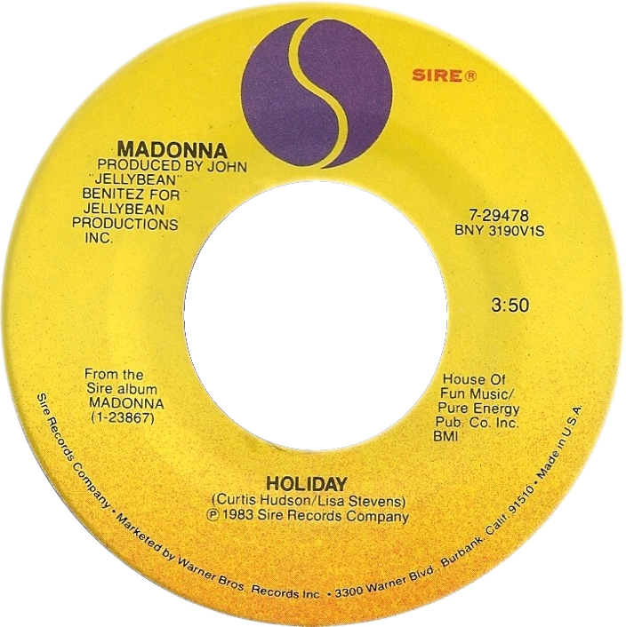 A-side label of the U.S. vinyl release of "Holiday" by Madonna